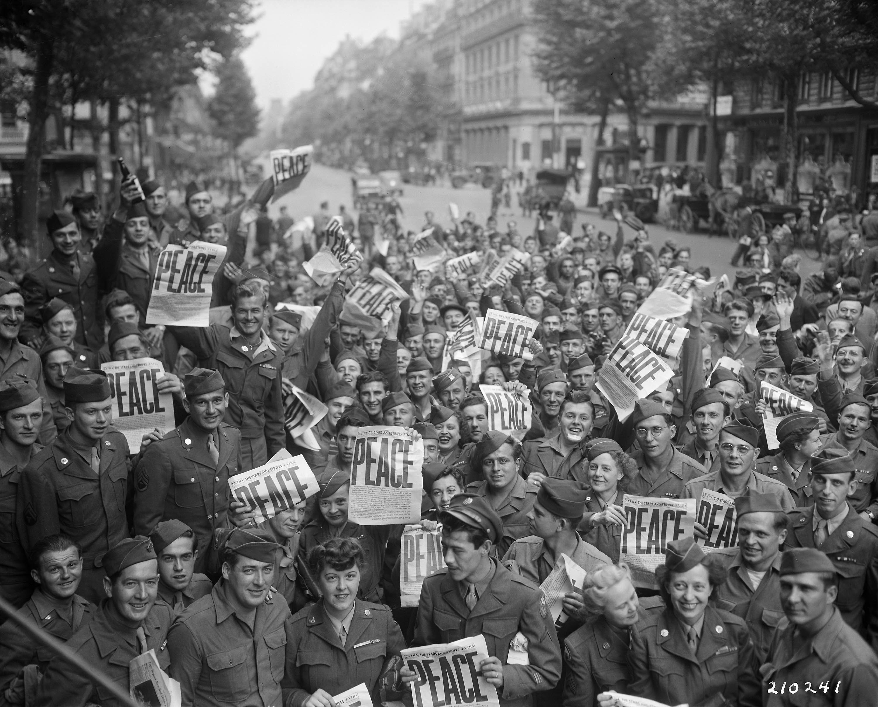 "American servicemen and women gather in front of "Rainbow Corner" Red Cross club in Paris to celebrate the unconditional surrender of the Japanese."